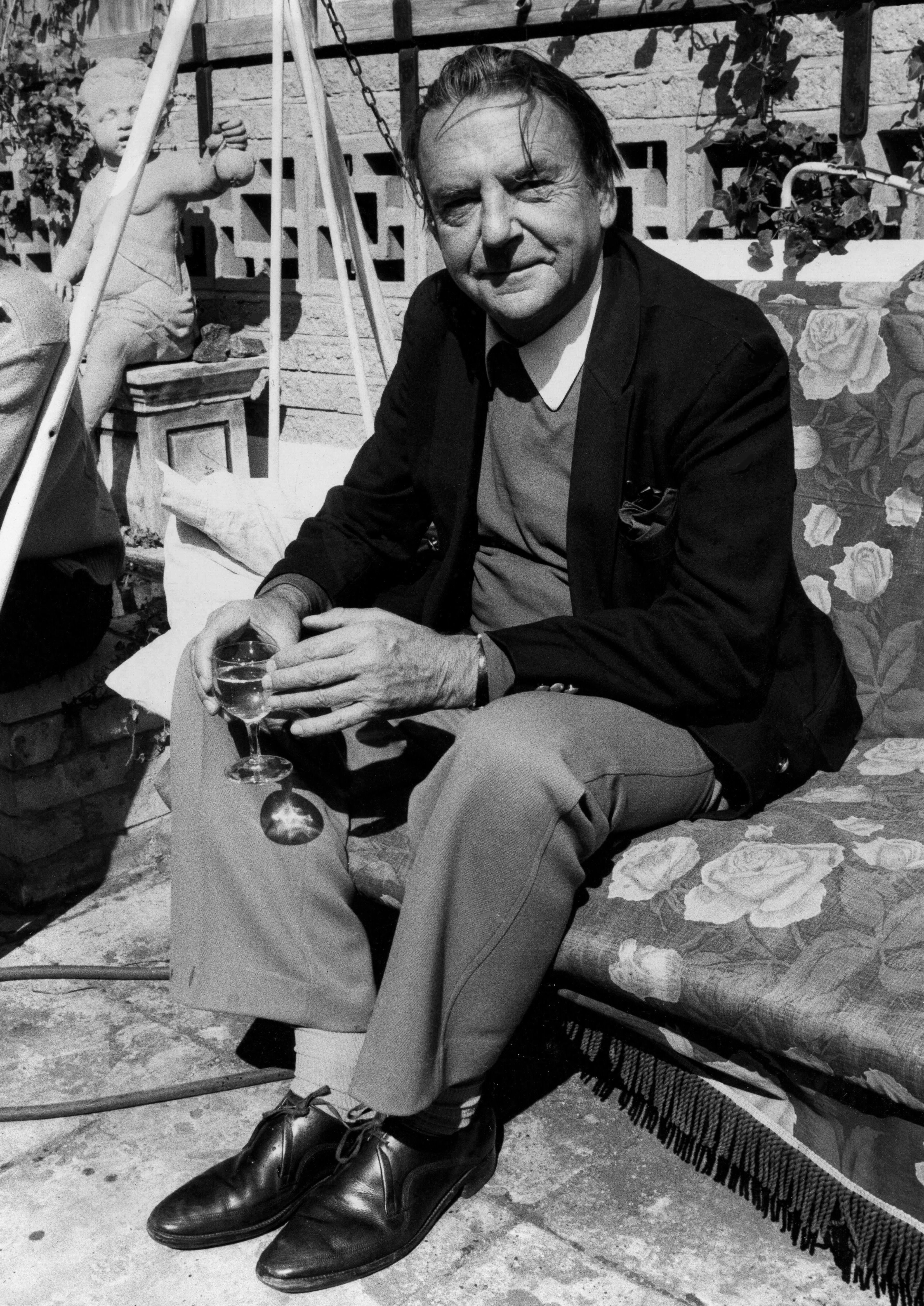 Portrait of Robin Maugham, 2nd Viscount Maugham, on photographer's roof terrace in London.